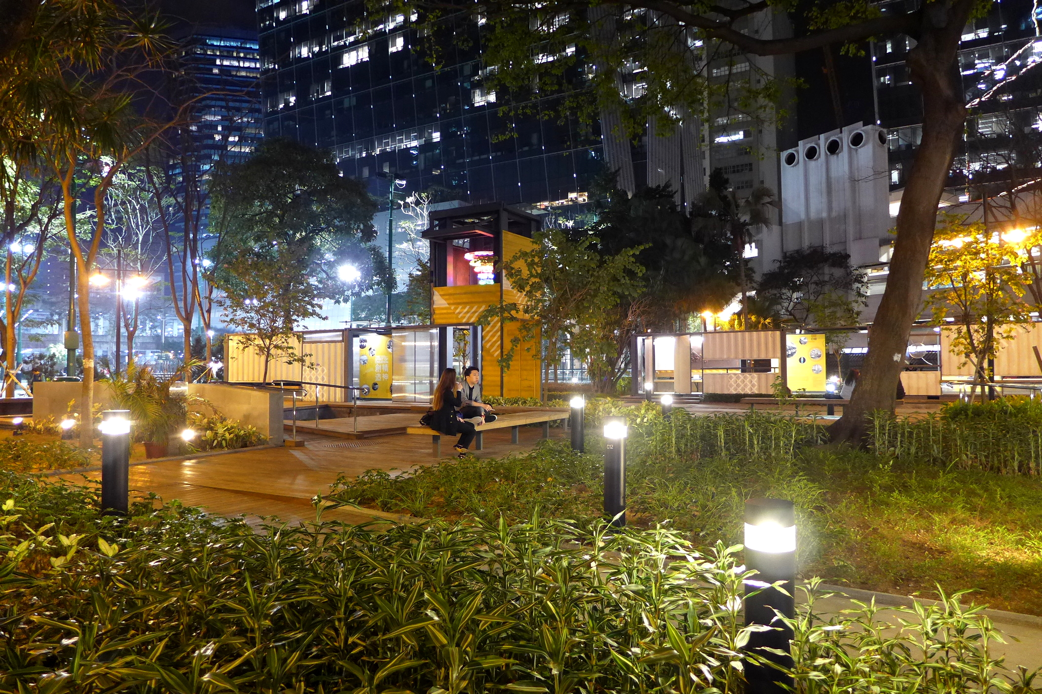 Tsun Yip Street Playground